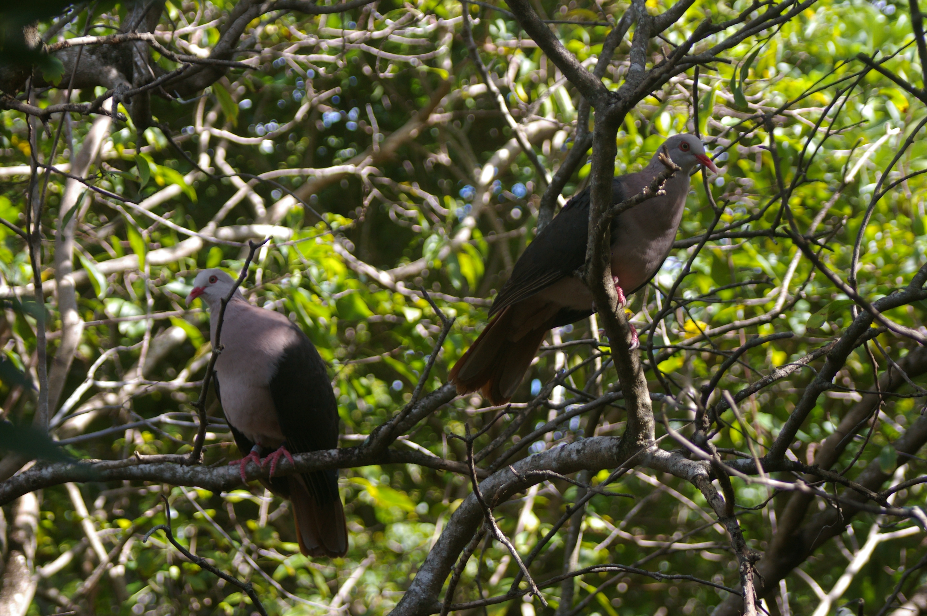 Photo of a pair of pink pigeons from Ile aux Aigrettes near Mahebourg Mauritius. Taken by Darren Hughes July 2007